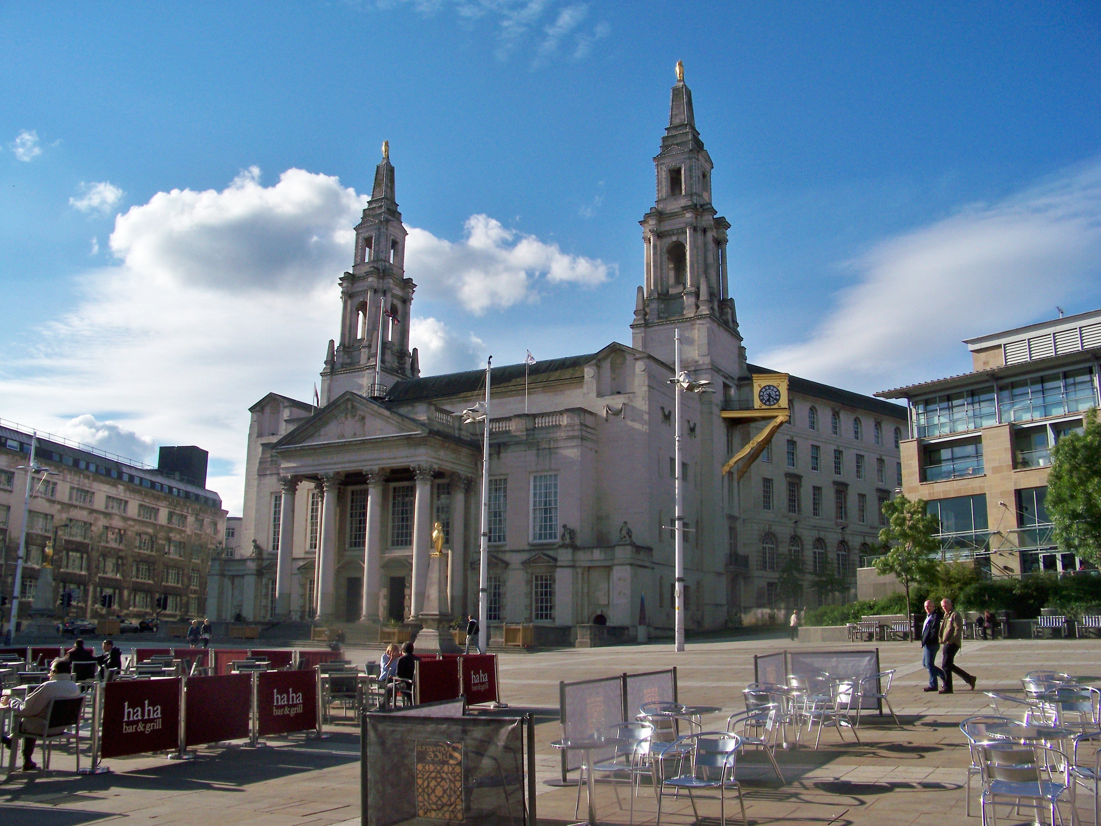 A view of Millennium Square, taken from near Revolution, looking towards Leeds Civic Hall. Taken on the evening of Thursday the 27th of May 2010.